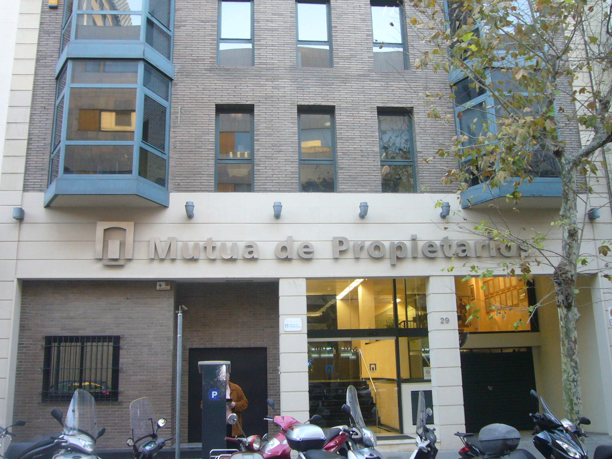 Mutua de Propietarios - (Barcelona)